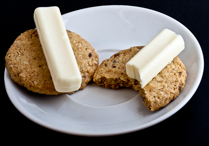 A popular danish childrens cheese, Lillebror Ostehaps from Arla, on crackers